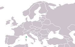 Distribution of Salamandra_corsica, based on Nöllert/Nöllert: "Die Amphibien Europas"